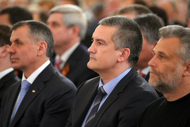 Putin with Vladimir Konstantinov, Sergey Aksyonov and Alexey Chaly